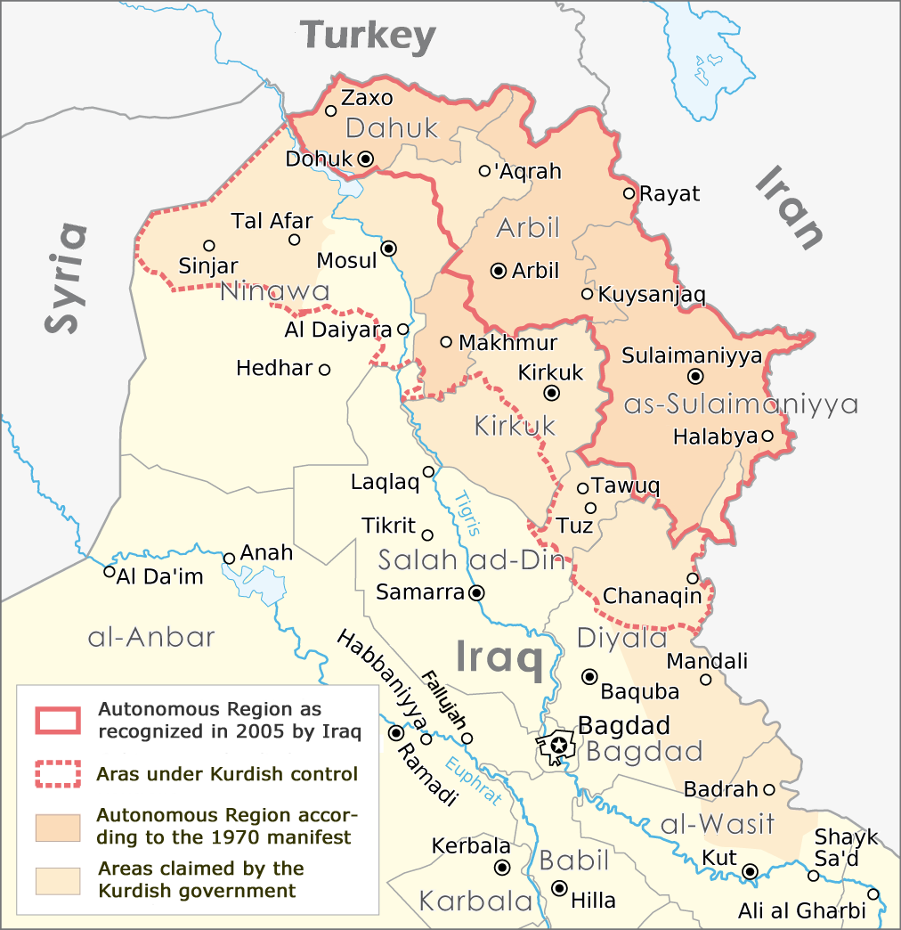 Map of the Autonomous Region Kurdistan, created by Maximilian Dörrbecker, translated into English by ilyacadiz